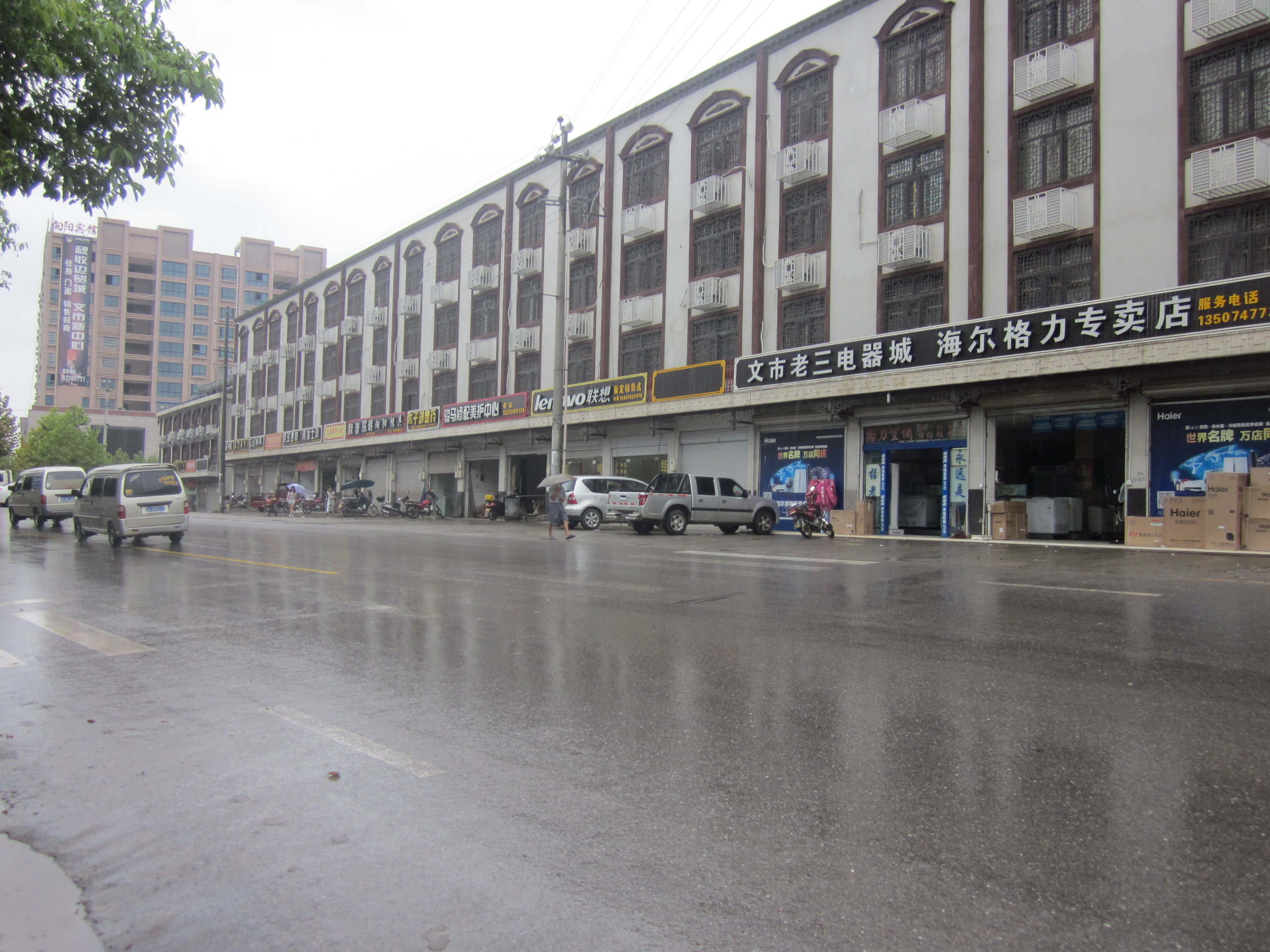 Residential buildings on both sides of the street in Wenjiashi Town. Wenjiashi (simplified